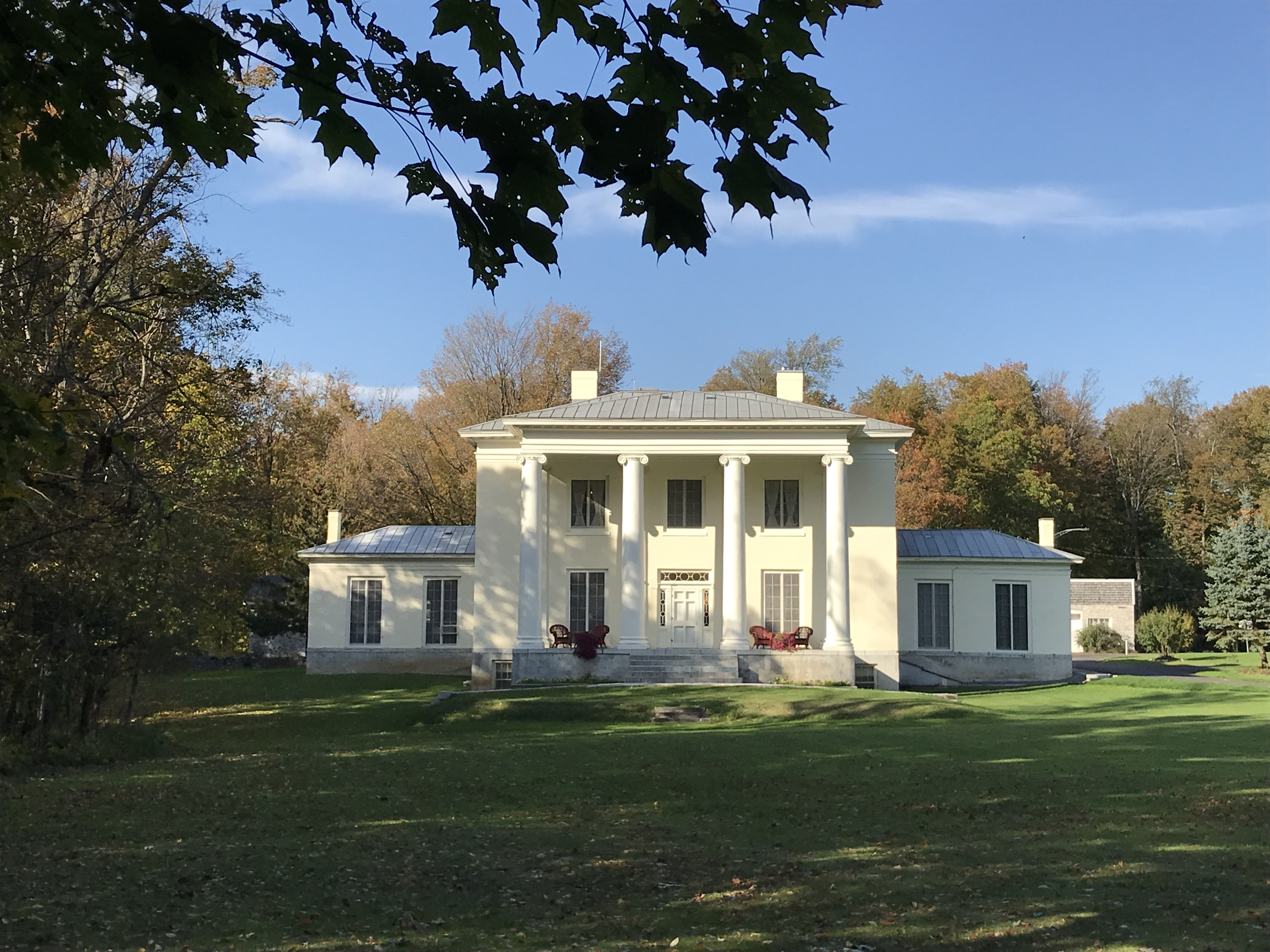 The LeRay Mansion house, a historic home on the grounds of Ft. Drum, NY